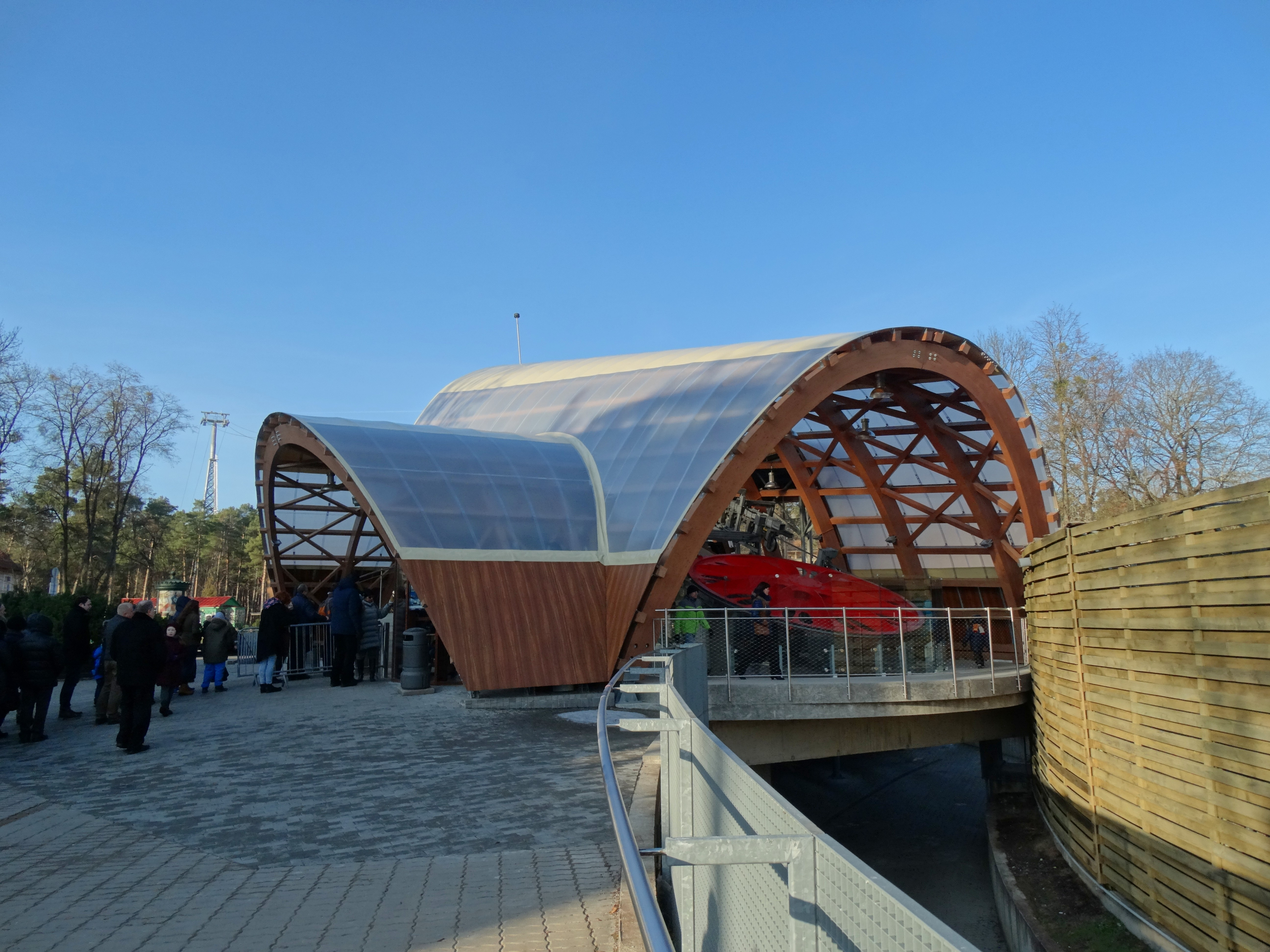 Aerial Cableway, Druskininkai, Lithuania